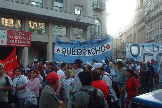 Quebracho activists on demonstration in Buenos Aires, Argentina